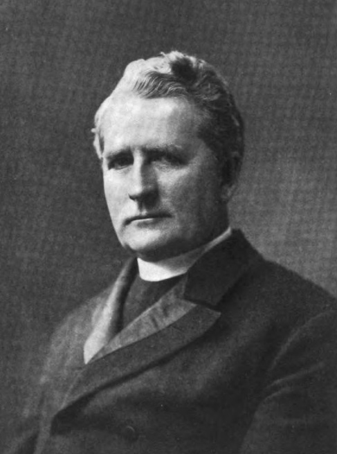 The Rt. Rev. Ethelbert Talbot, first Episcopal Bishop of Bethehem (formerly Central Pennsylvania). Consecrated May 27, 1887. First Missionary Bishop of Wyoming and Idaho. Translated to Central Pennsylvania 1898.